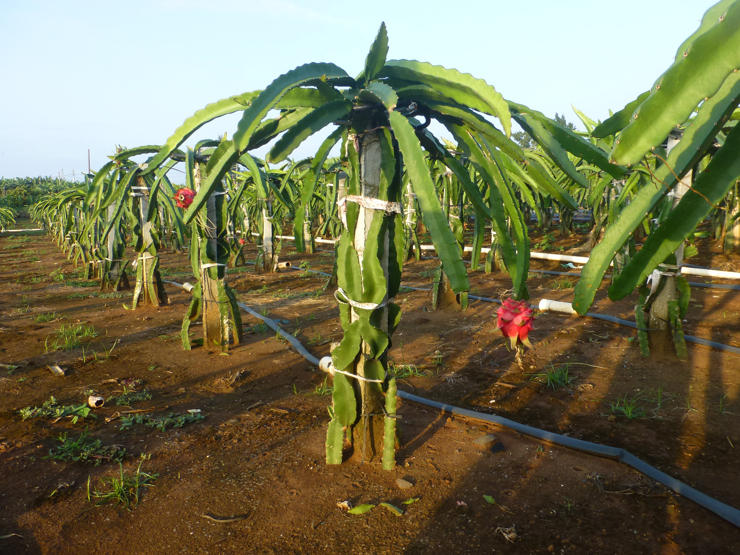 A dragon fruit (pitaya) field in Naozhou Island